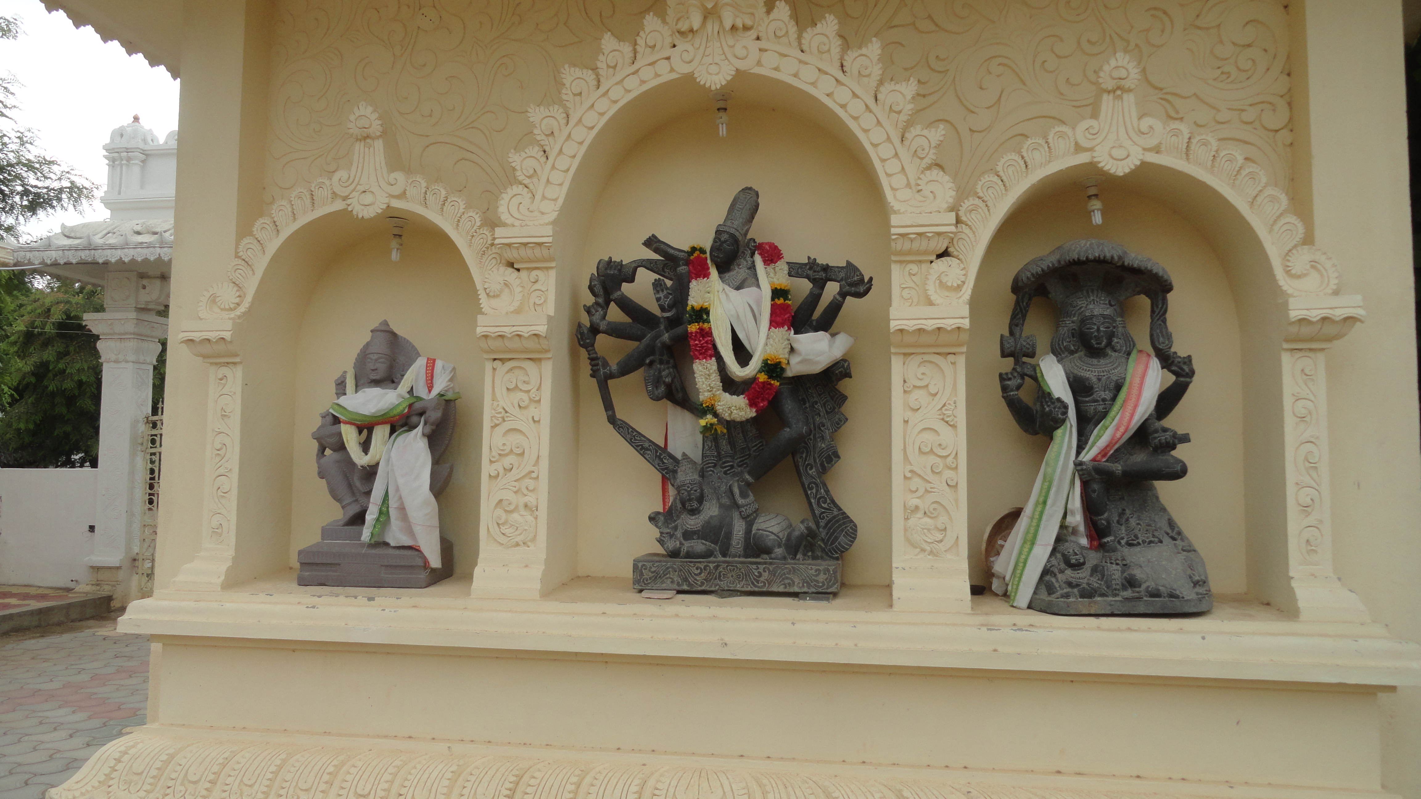 in Annamayya park.